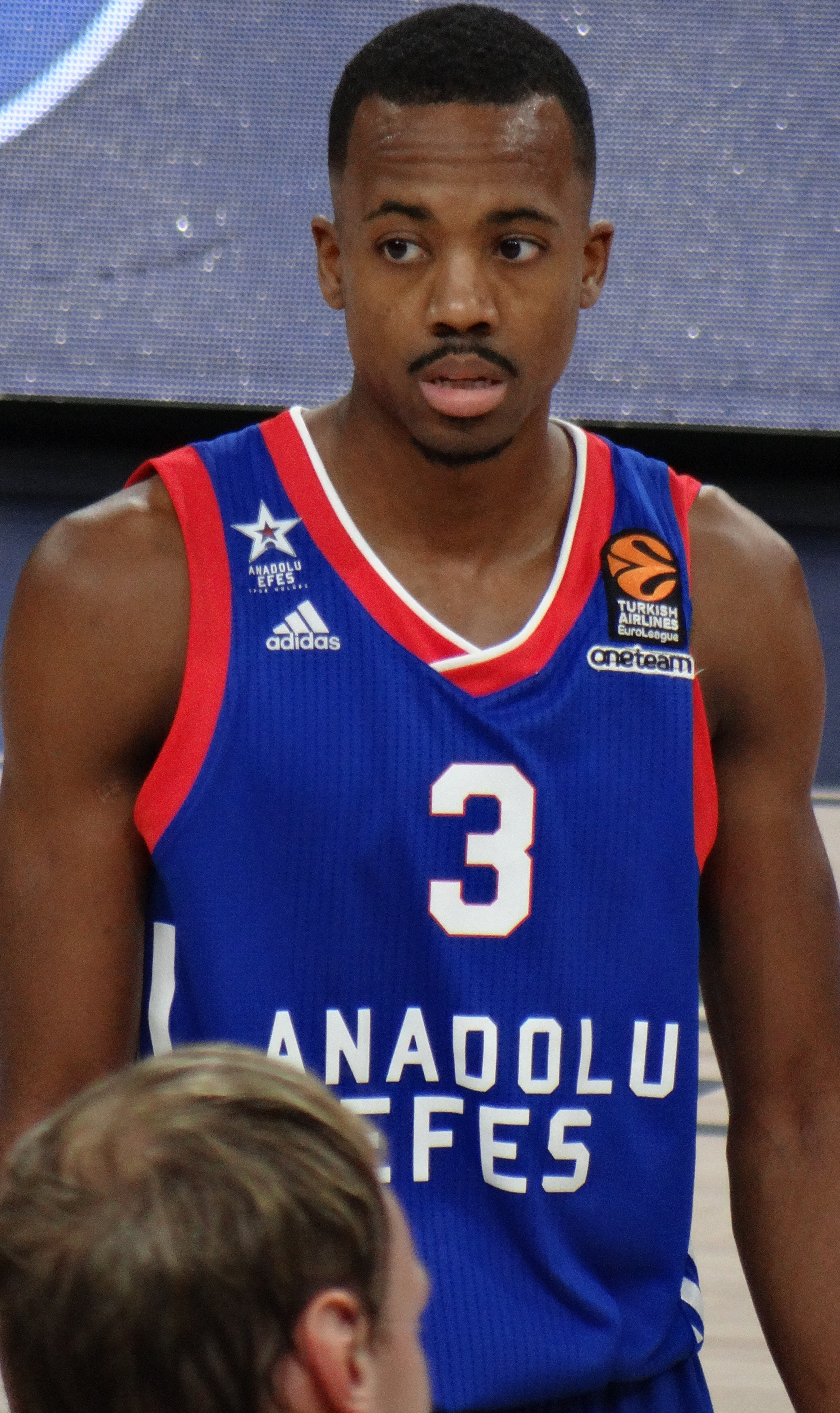 Errick McCollum 3 - Anadolu Efes S.K. 20171215